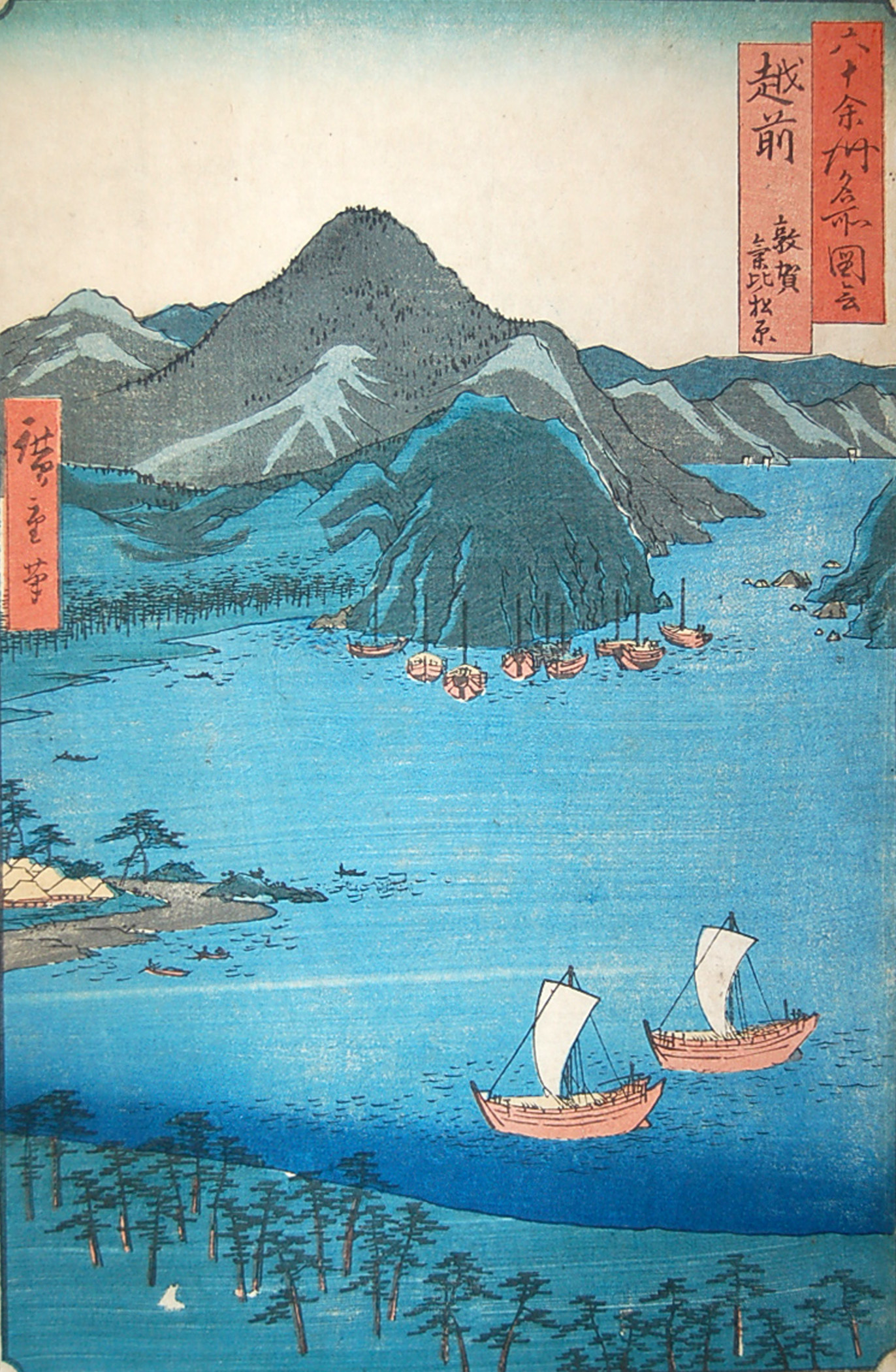 View of Echizen Province, woodblock print by Hiroshige, 1853